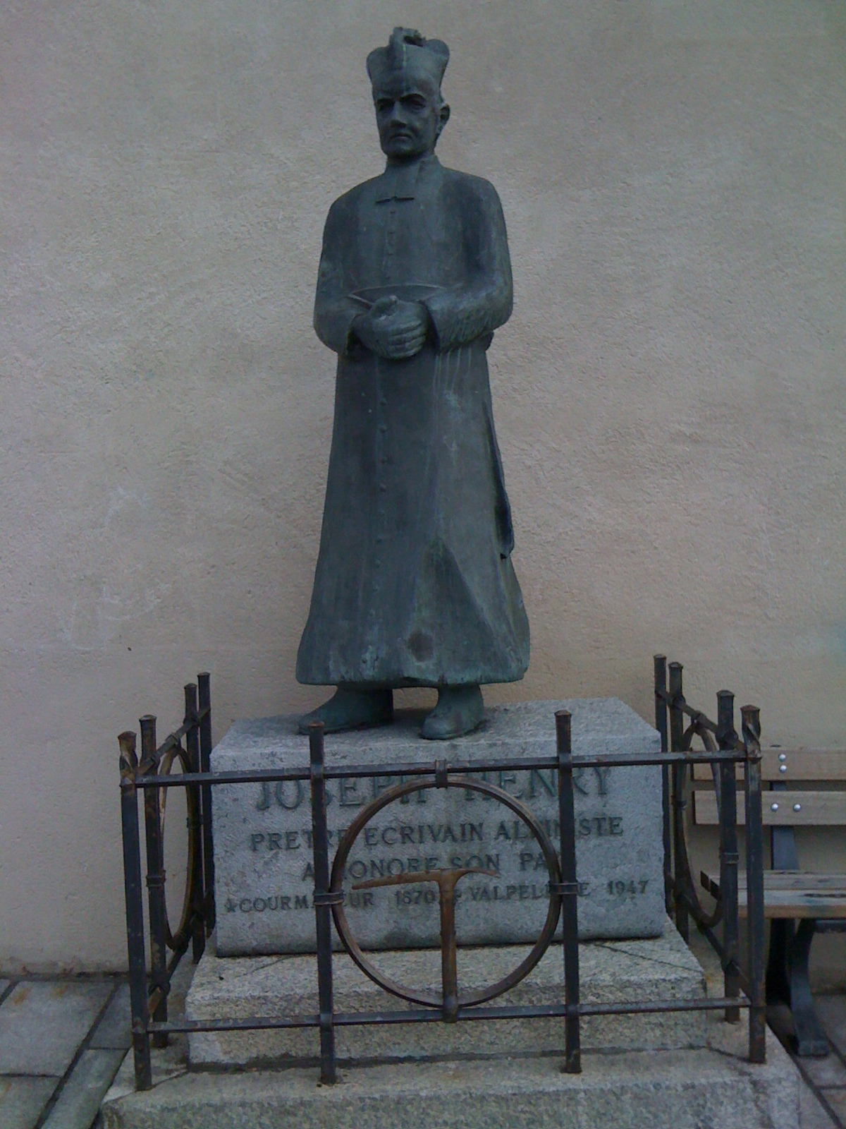 Statue of abbé Joseph-Marie Henry in Courmayeur (Aosta Valley, Italy)